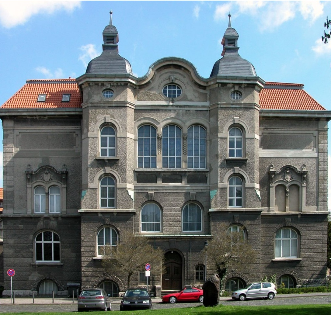 Brunswick, Germany: Municipal Museum, rear.